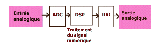 Digital Signal Processig block diagram french